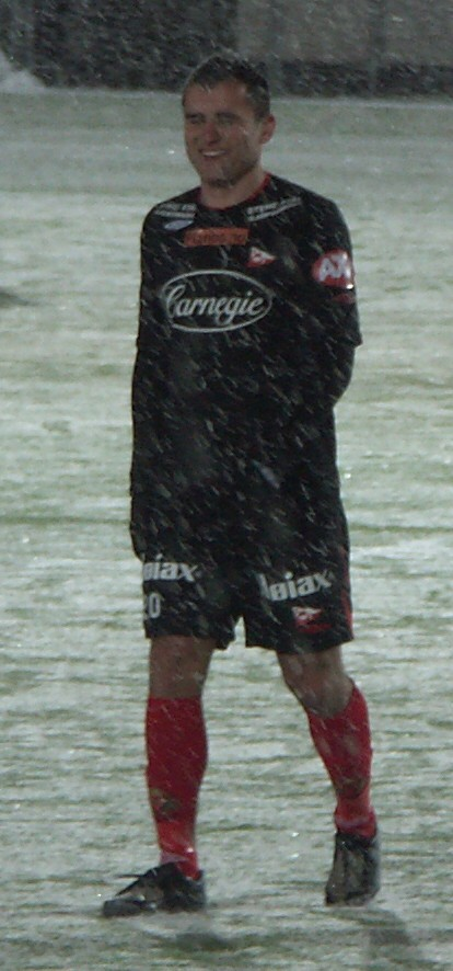 Levon Pachajyan's first game for Fredrikstad FK, a friendly against IFK Göteborg at a snowy Valhalla stadium in Göteborg, February 19th, 2009.